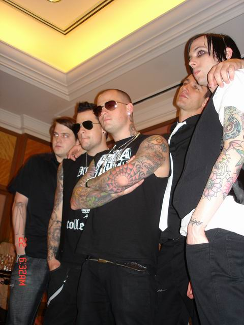 Good Charlotte in press conference - MTV Live in Kuala Lumpur, Malaysia. From left to right: Paul Thomas, Joel Madden, Benji Madden, Dean Butterworth, and Billy Martin.